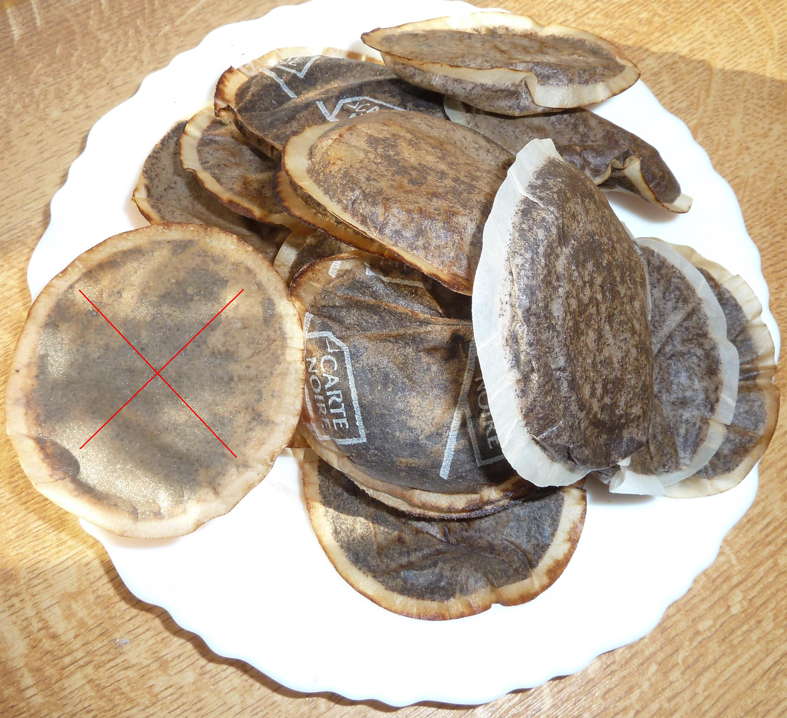 Used coffee pads the marked one is not recyclable because of a second chamber of plastic, Logo of Kraft Foods (Carte Noire)